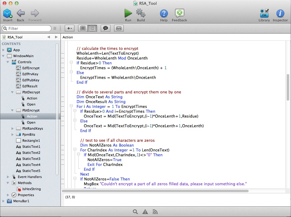 Xojo Code Editor